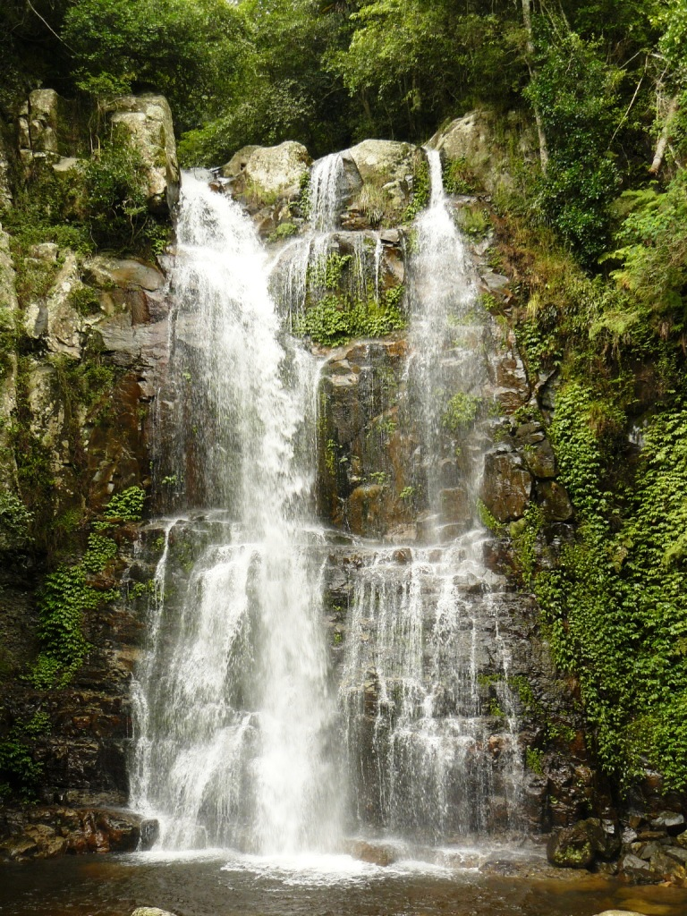 Minnamurra Falls, Minnamurra Rainforest Center